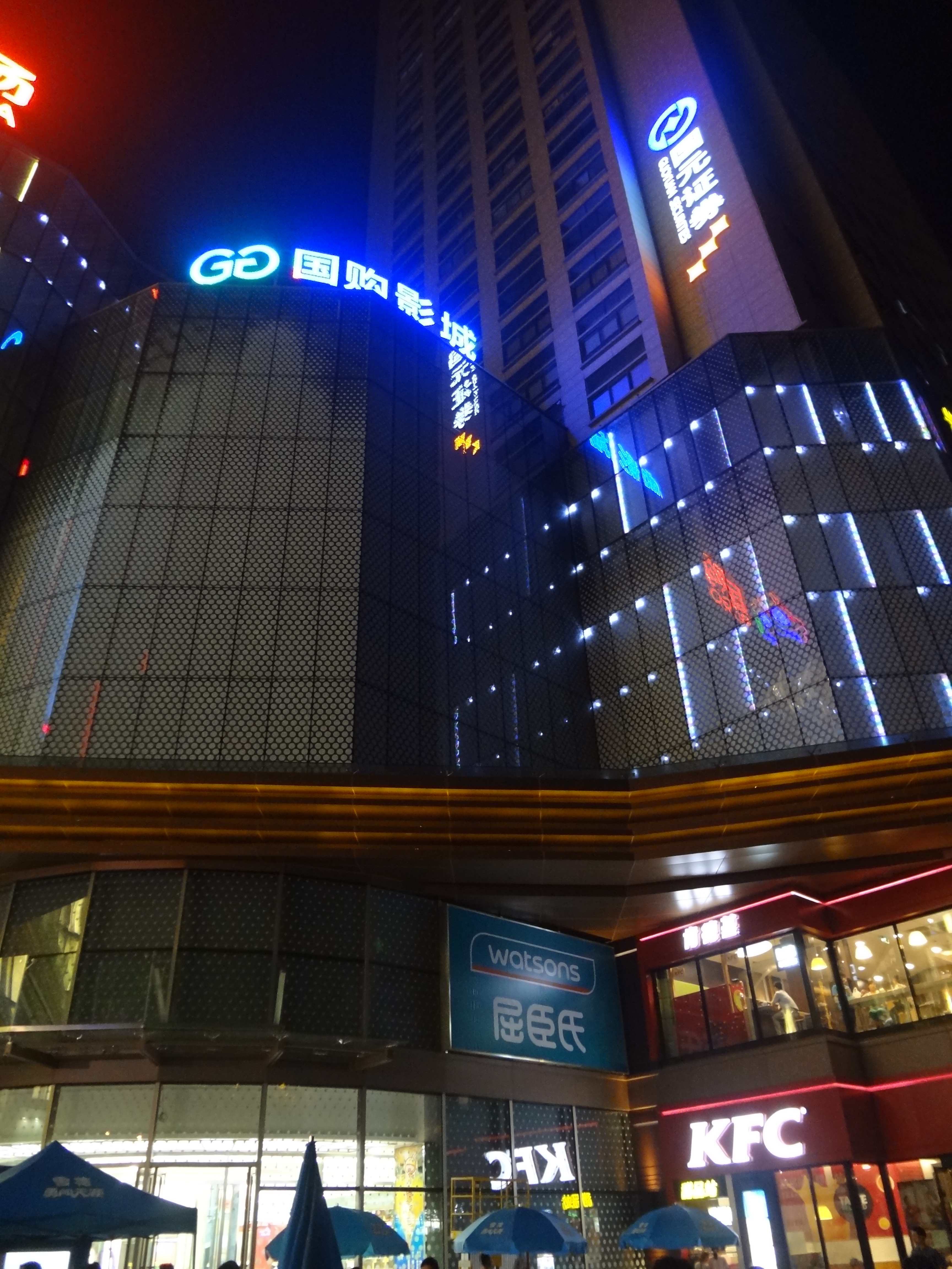 Guogou Plaza,Xuancheng,Anhui,China.